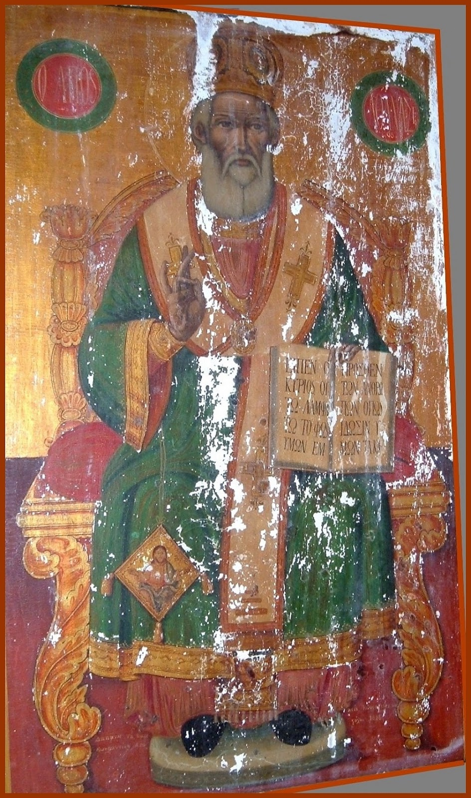 Saint Athanasius Iconostasis Icon in Saint Athanasius Church in Zagorichani Vasiliada